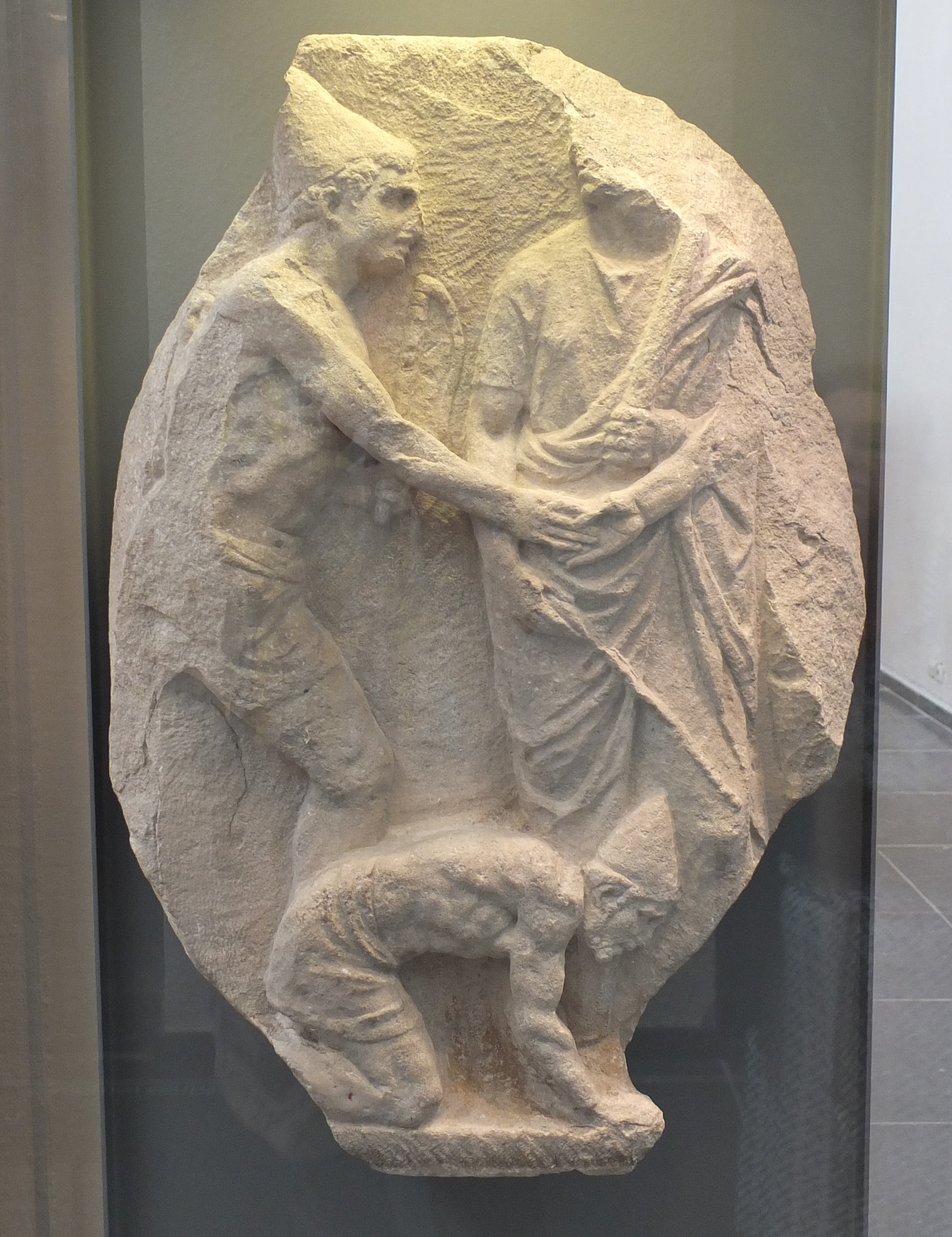 Relief depicting the Manumission of slaves. Marble, 1st century B.C. Musée Royal de Mariemont inv. B.26.